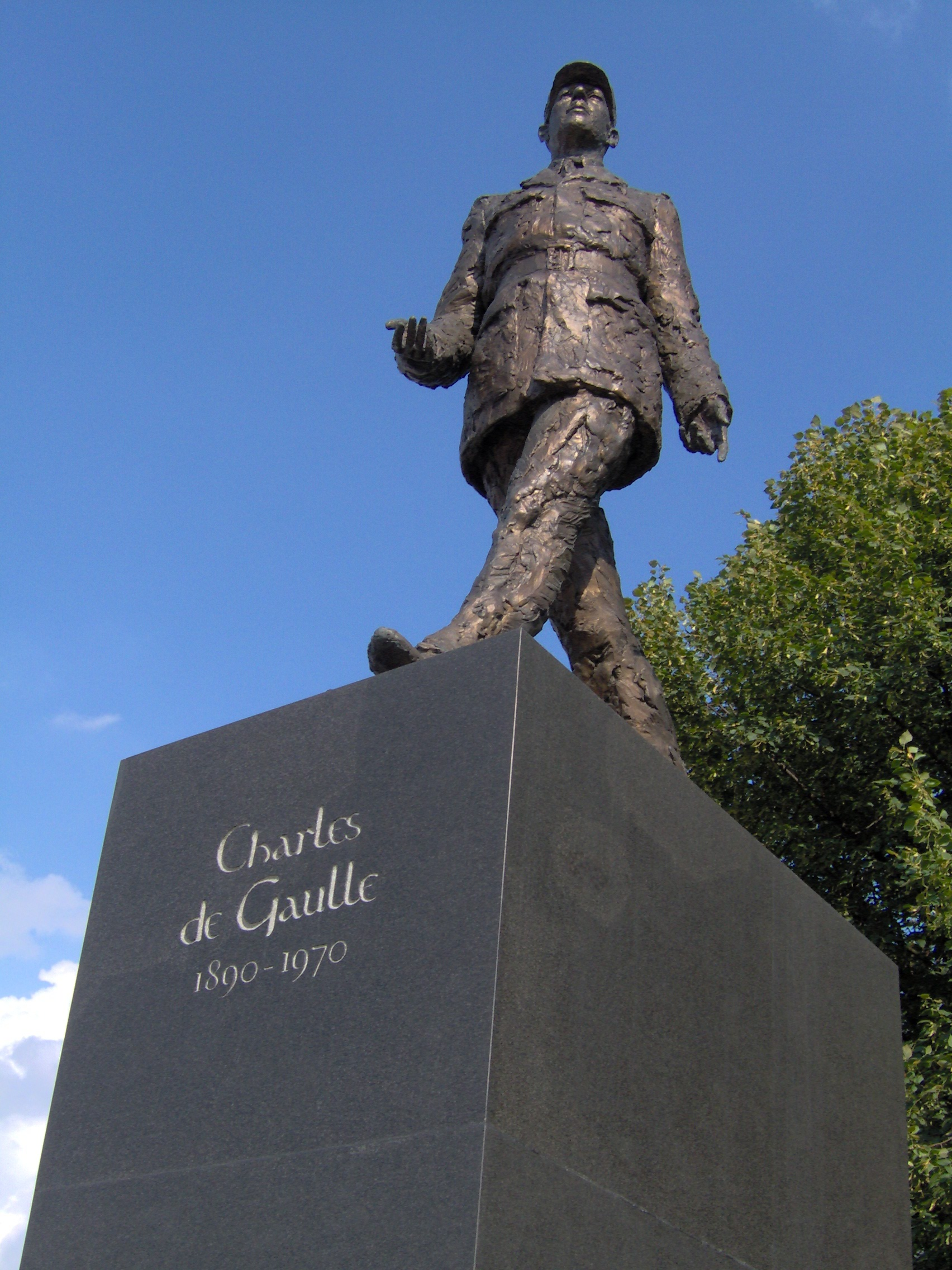 Statue of Charles De Gaulle at Rondo Charles'a de Gaulle'a in Warsaw. Taken by ProhibitOnions, 2006.